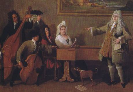 By Marco Ricci, 1709 ca. Nicola Francesco Haym at harpsichord, the singer is assumed Nicolo Grimaldi, known as "Nicolini". (Picture detail)